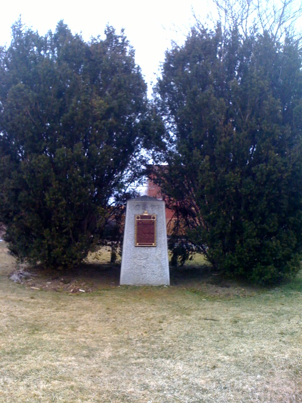 Duc d'Anville Monument Halifax, NovaScotia.jpg